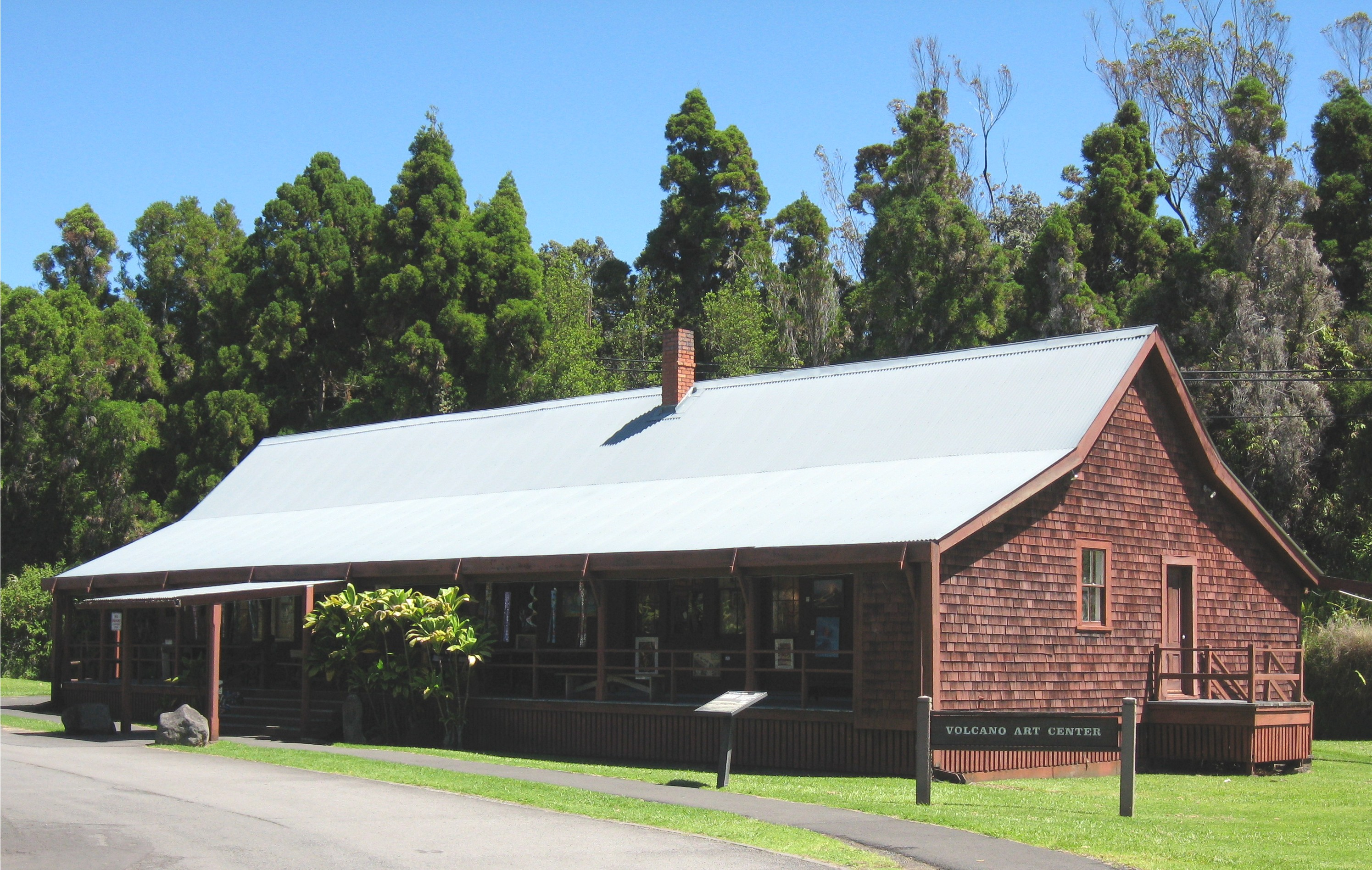 Old Volcano House No. 42 — the building that was used as the Volcano House Hotel from 1877 to 1921. It now houses a gallery for the Volcano Art Center, in Hawaii Volcanoes National Park. On the National Register of Historic Places in Hawaii Volcanoes National Park, within the state of Hawaii.